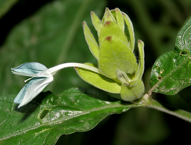 Ecbolium ligustrinum (Vahl) Vollesen (syn. Justicia ecbolium L.; J. ligustrina Vahl) - green ice crossandra, green shrimp plant, turquoise crossandra • Hindi: udajati • Kannada: kappubobbuli, kappukuruni • Malayalam: karinkurinni, kuranta, koranda • Marathi: धाकटा अडुळसा dhakta adulsa, एकबोली ekboli, रान आबोली ran aboli • Oriya: piccokatho • Sanskrit: निल साहचर nila-sahacarah, साहचर sahacarah, sairyakah • Tamil: நீலாம்பரி nilambari • Telugu: chikatiquratappa, నక్కతోక nakkatoka, pachavadambaramu - in Hyderabad, India.